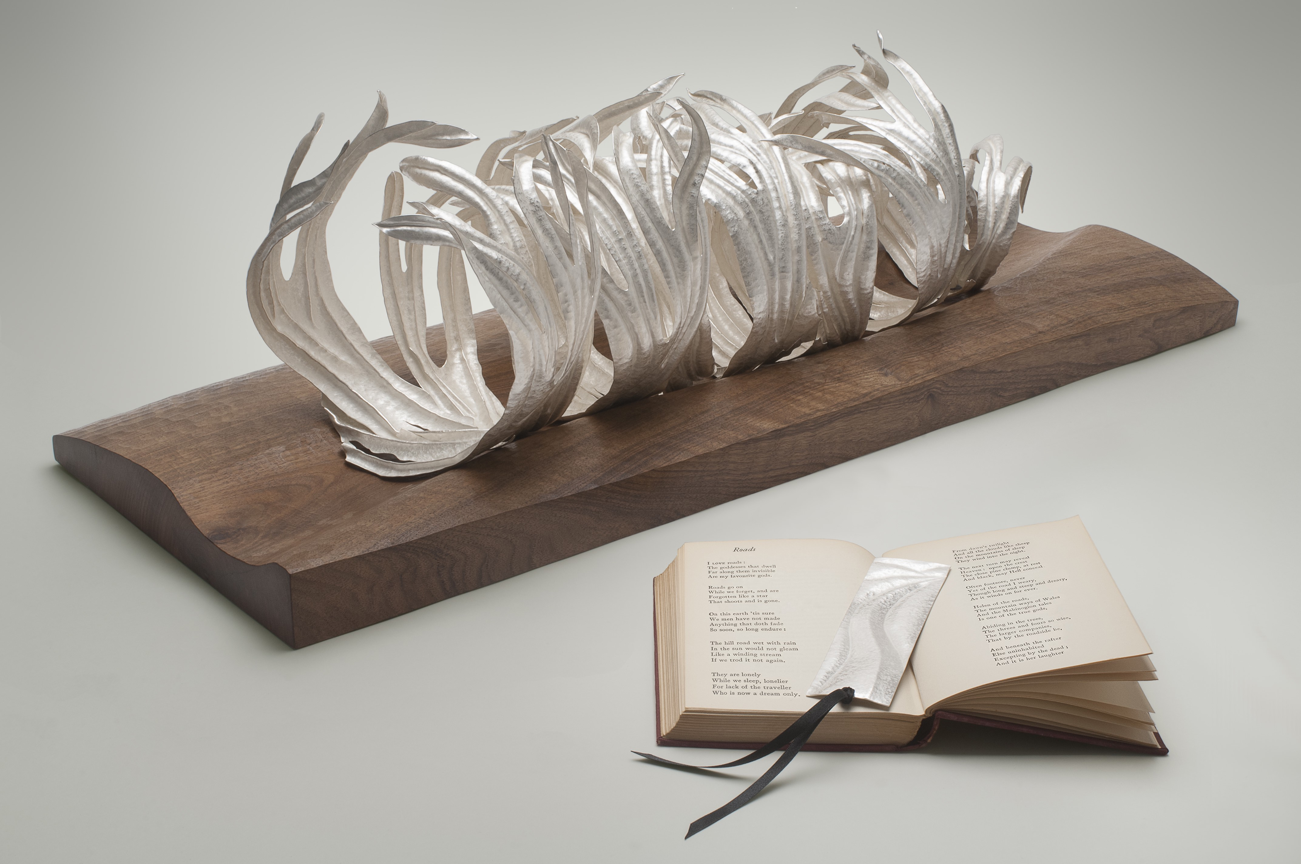 By Claire Malet, fine silver on a walnut base carved by woodworker Nick Barberton. Photo credit: Anthony Evans